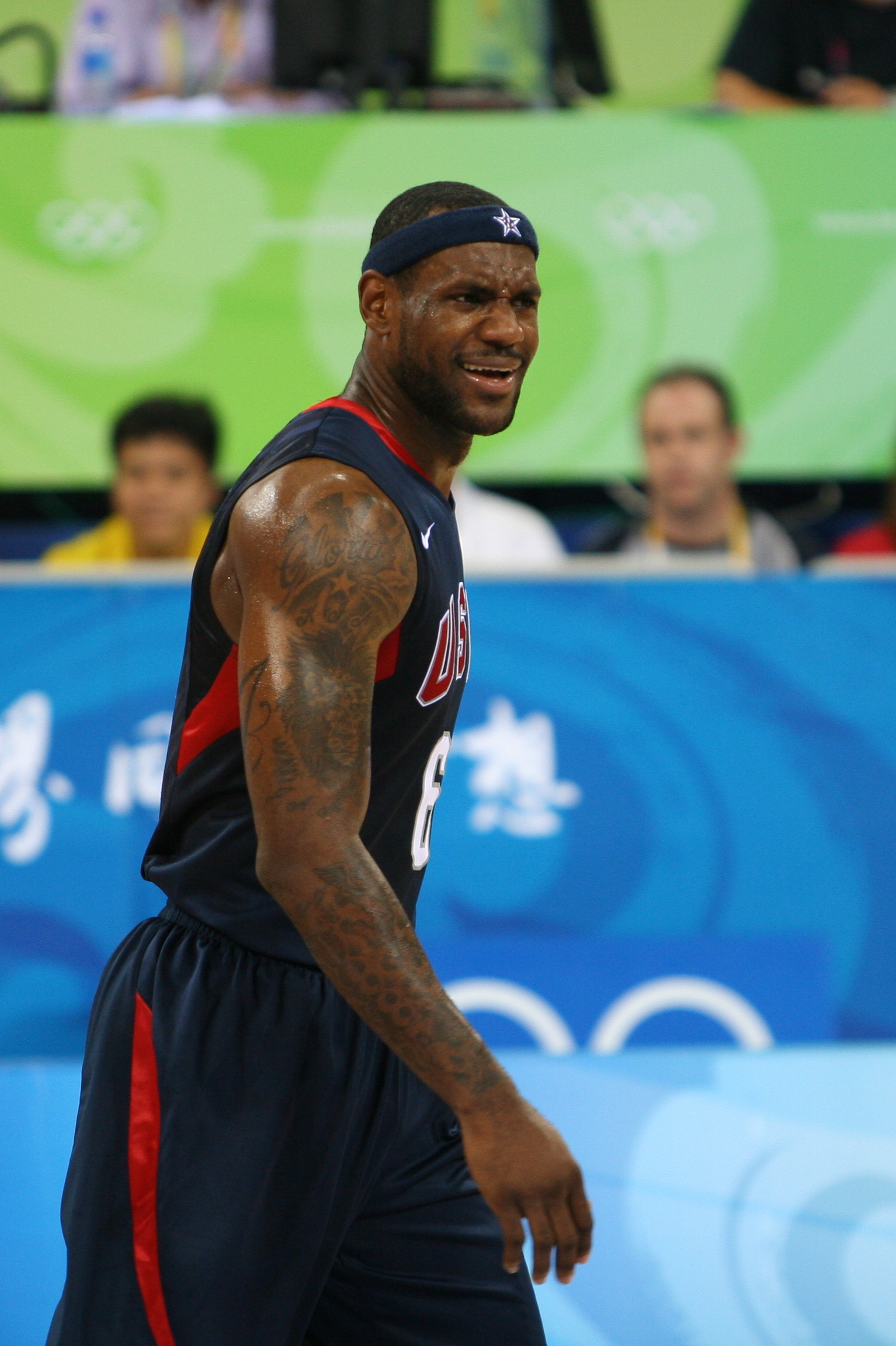 LeBron James at the 2008 Olympics